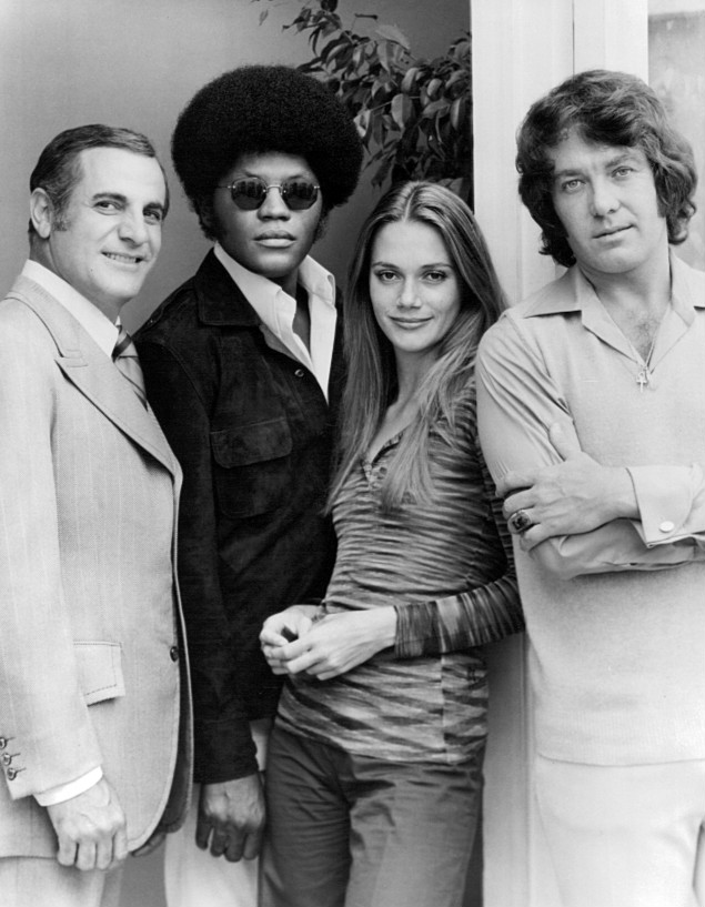 Cast photo from the television program The Mod Squad. From left:Tige Andrews, Clarence Williams III, Peggy Lipton, Michael Cole.